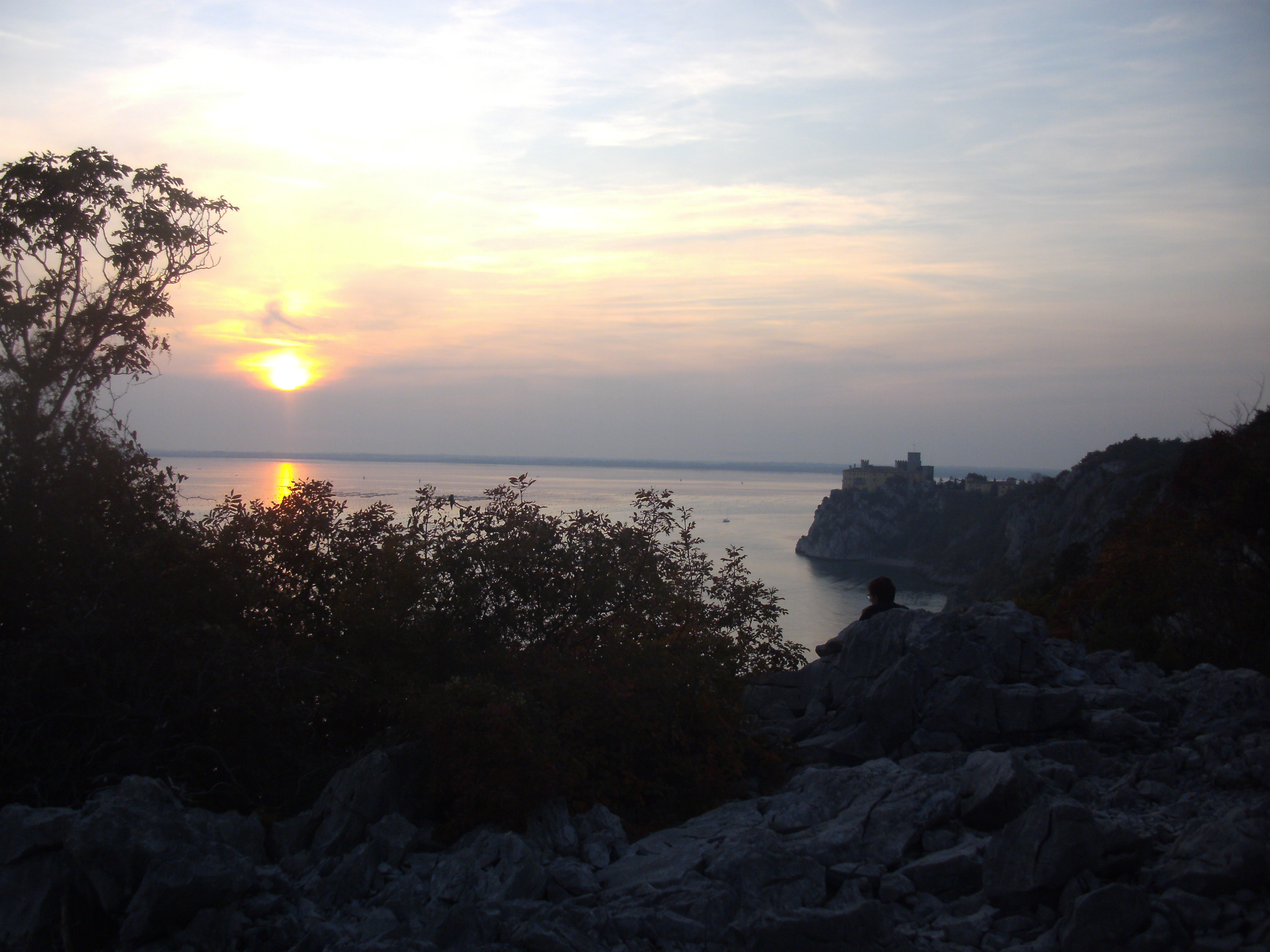 Duino castle from the path "Sentiero Rilke". In some sites of the way you can leave out the path and relax yourself with very nice views like this.